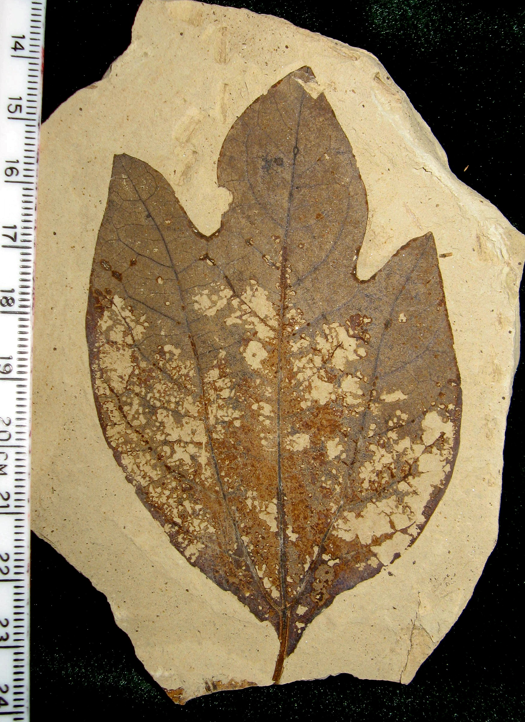 An ~11cm tall trilobed leaf from the extinct Sassafras species Sassafras hesperia. The areas in the interior without leaf are sections preserved insect feeding damage. ~49.5 million years old. Early Ypresian, Klondike Mountain Formation, Republic, Ferry County, Washington, USA. Stonerose Interpretive Center specimen.